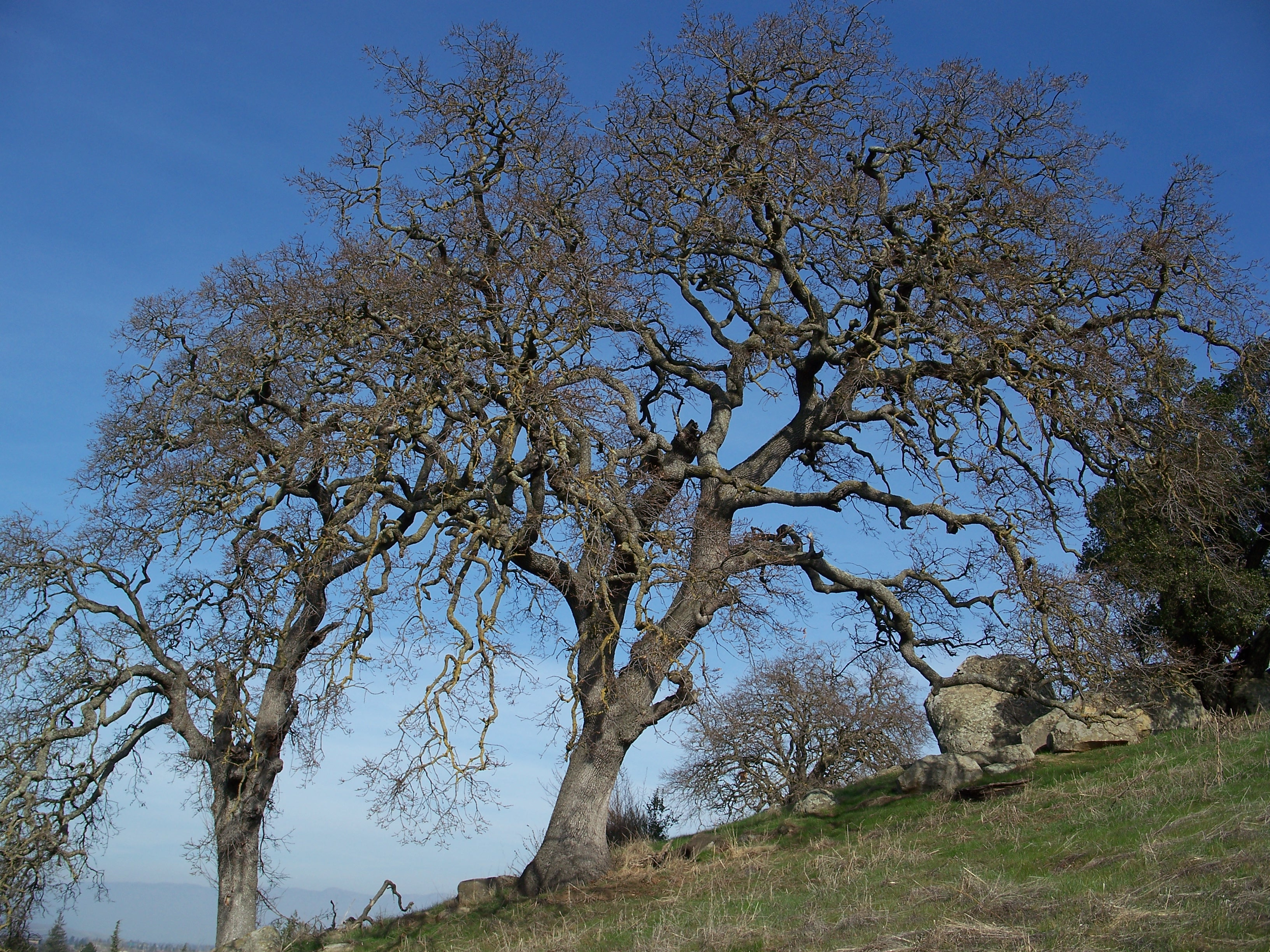 Blue Oak